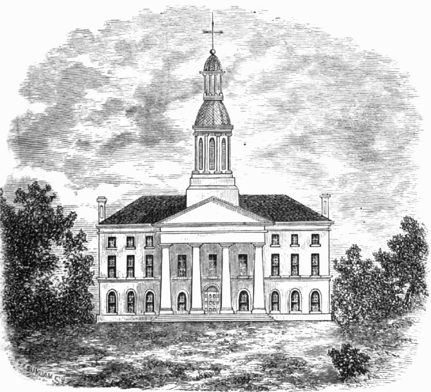 The second Kentucky state capitol building (destroyed by fire November 4, 1824)